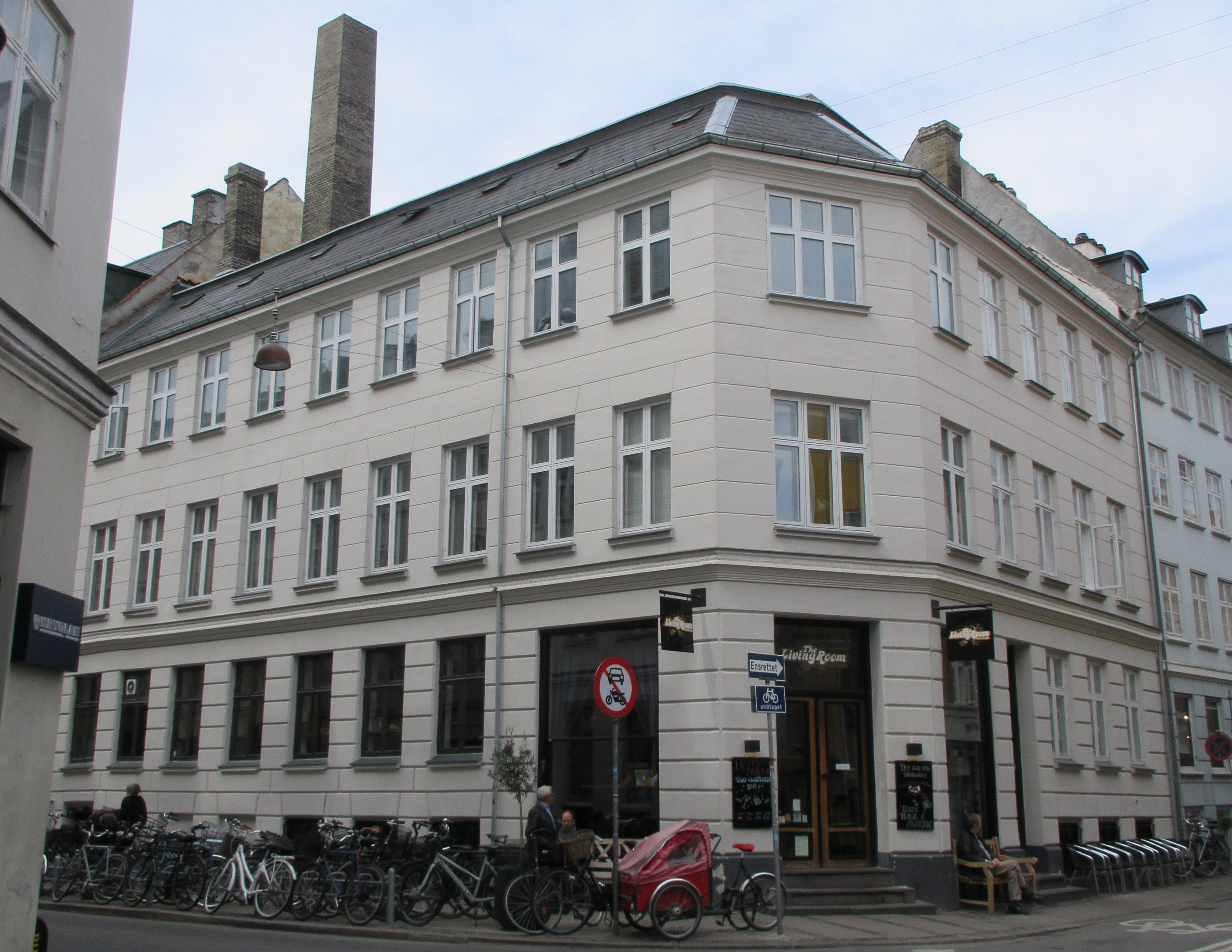 Larsbjørnsstræde 17 in Copenhagen, Denmark